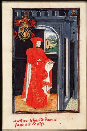 Statuts, Ordonnances et Armorial de l'Ordre de la Toison d'Or (Statutes, Ordonnances and armorial of the Order of the Golden Fleece) Place of origin, date: Southern Netherlands; 1473. Added sections: Southern Netherlands; 1478 or shortly after and 1491 or shortly after Material: Vellum, ff. 86, 249x187 (167x106) mm, 23 lines, littera cursiva (lettre bourguignonne). French. Binding: 18th-century brown leather Decoration: 1 full-page miniature (170x115 mm) with border decoration; 92 miniatures (185/155x120/100 mm); 1 historiated initial (80x90 mm) with border decoration; decorated initials with border decoration (ff., Added section: miniatures ; 4 drawings for miniatures (not finished) Provenance: Presented in 1473 by Gilles Gobet, King of Arms of the Order of the Golden Fleece, to Charles the Bold, Duke of Burgundy and the other Knights during the Chapter of the Order held at Valenciennes; Treasure of the Golden Fleece, Brussls; taken away by the Treasurer C.-F. Humyn (d. 1735) or his daughter C.Ch. de Corte; by legacy to her daughter M.-L. de Corte, wife of Ph.-E. de Poederlé; purchased in 1781 at the Poederlé sale by G.-J- Gérard of Brussels; acquired in 1832 as part of the Gérard collection (no. A 27)